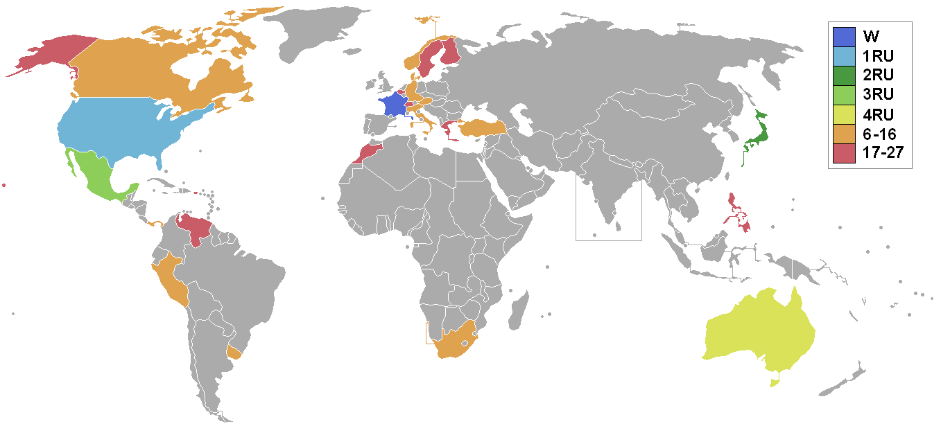 image created by Joey80